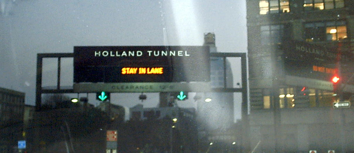 Holland Tunnel NYC entrance